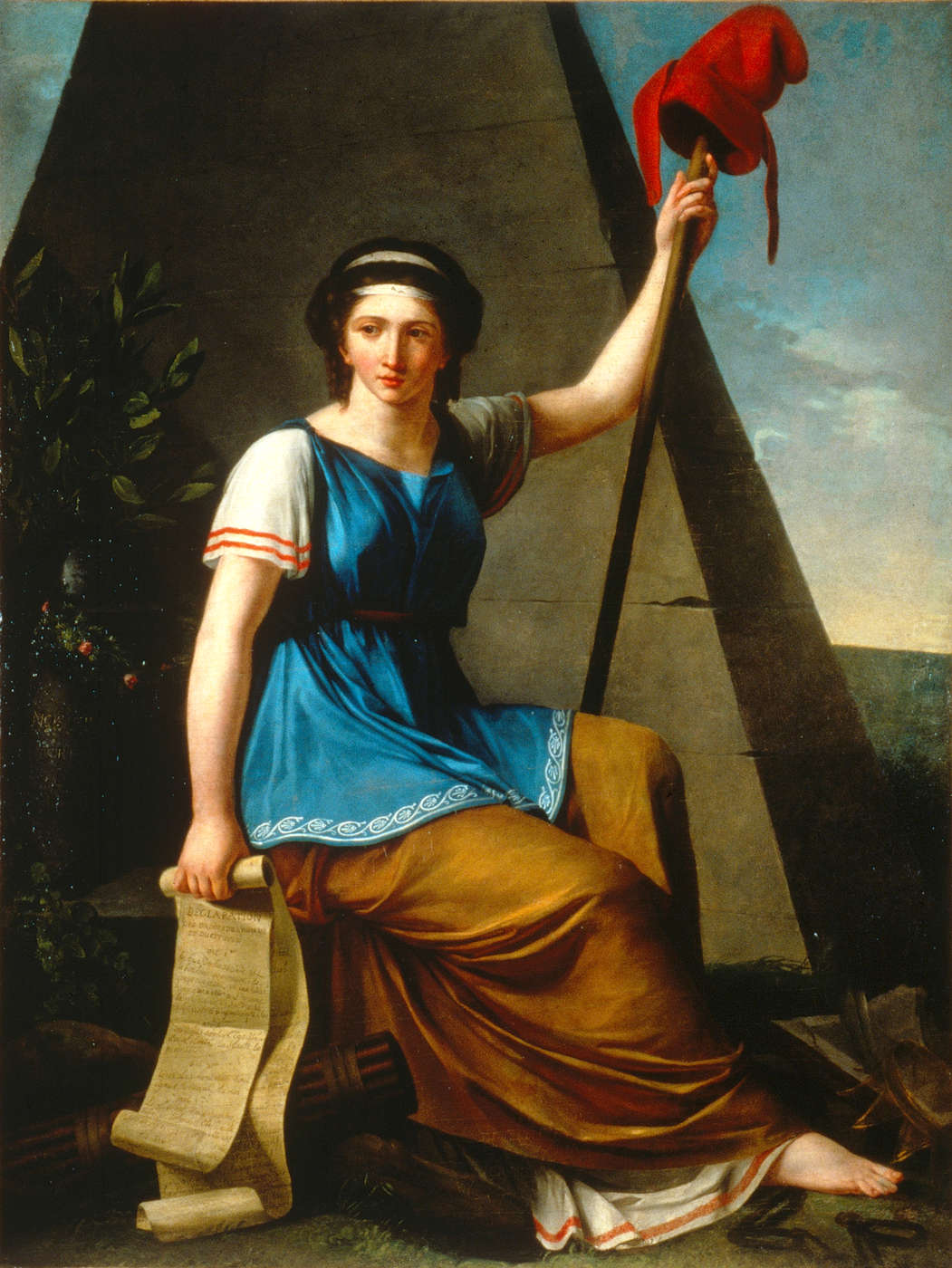 An allegory of the French revolution A woman in classical attire wearing a Phrygian hat